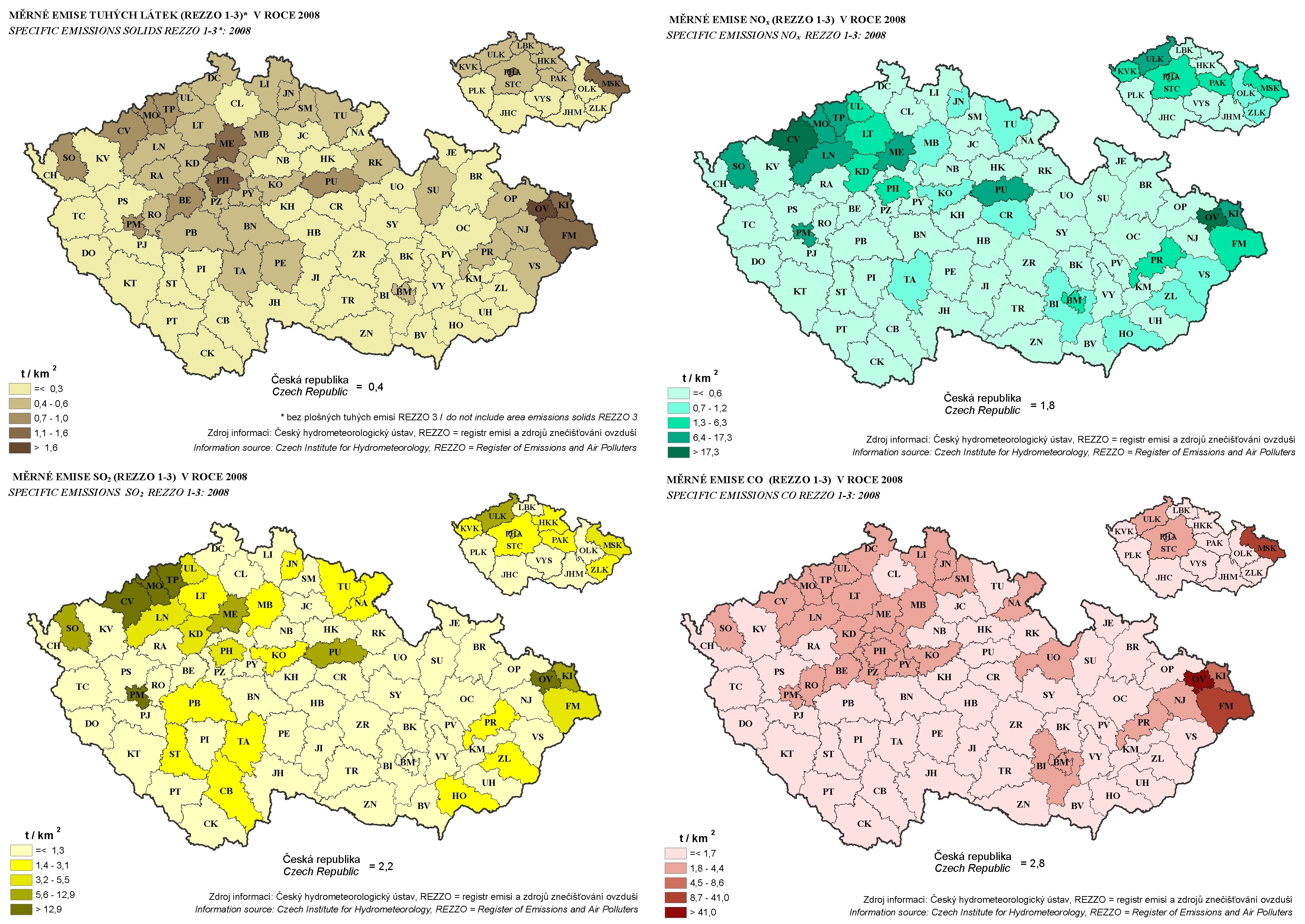 Specific emissions SO2